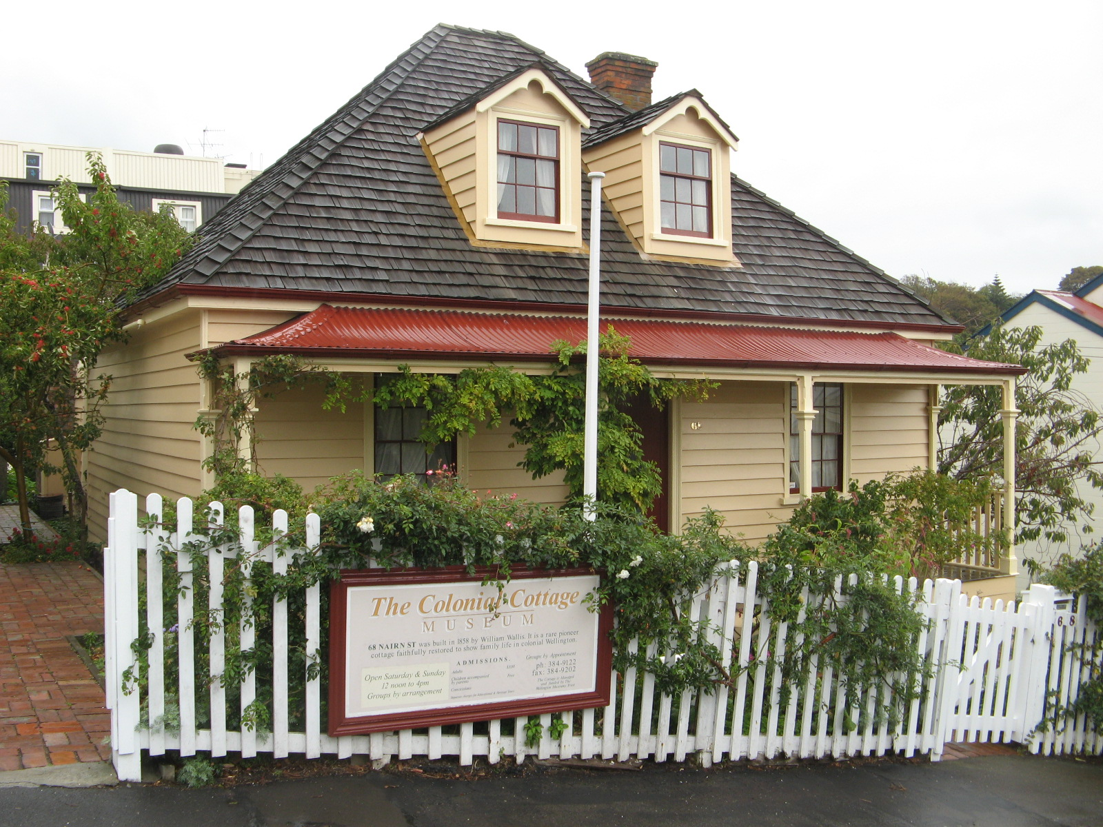 Colonial Cottage, Nairn Street, Mt Cook, Wellington, New Zealand. New Zealand Historic Places Trust Register number: 1444